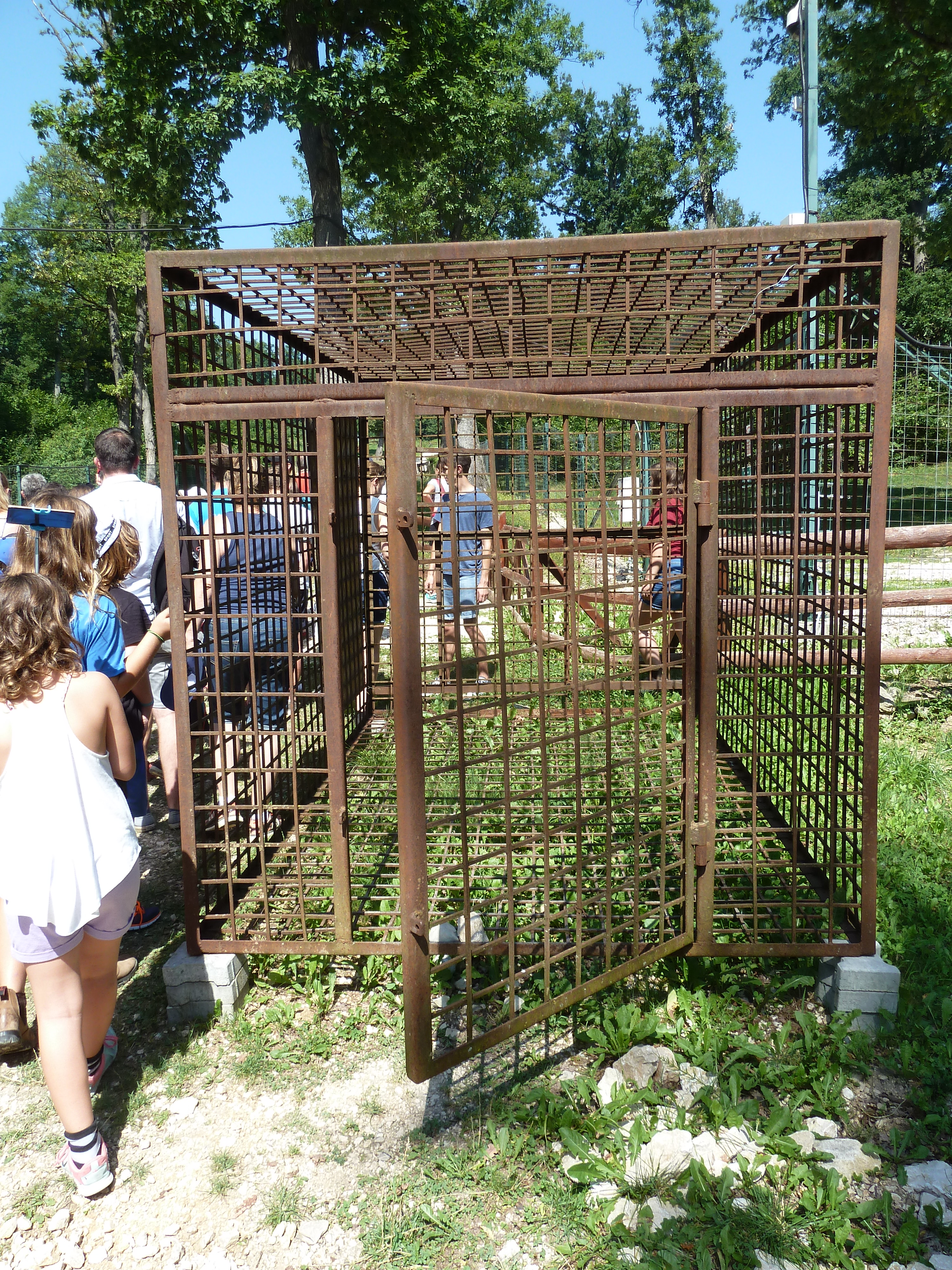 Libearty Bear Sanctuary: odi's cage during a guided tour